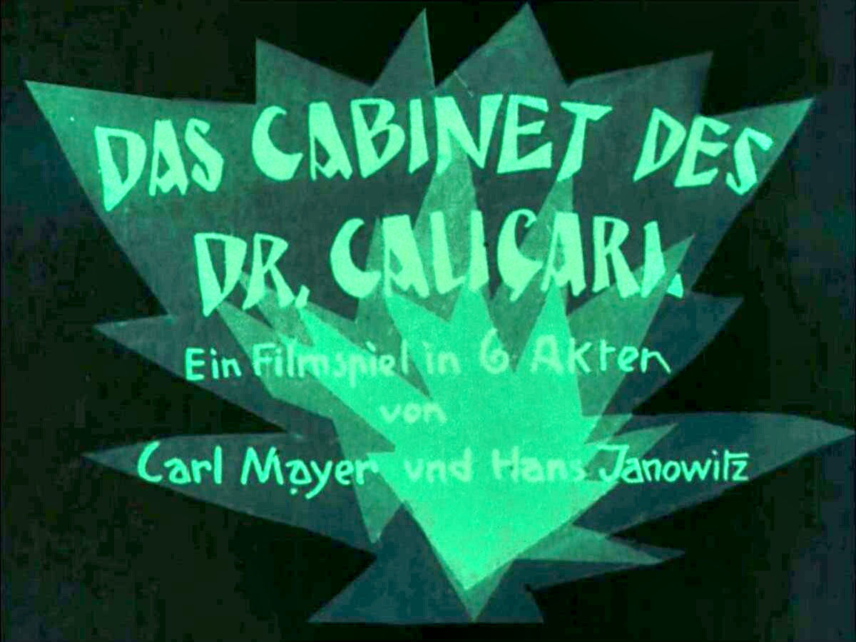 Title sequence of german silent film Das Cabinet des Dr. Caligari.